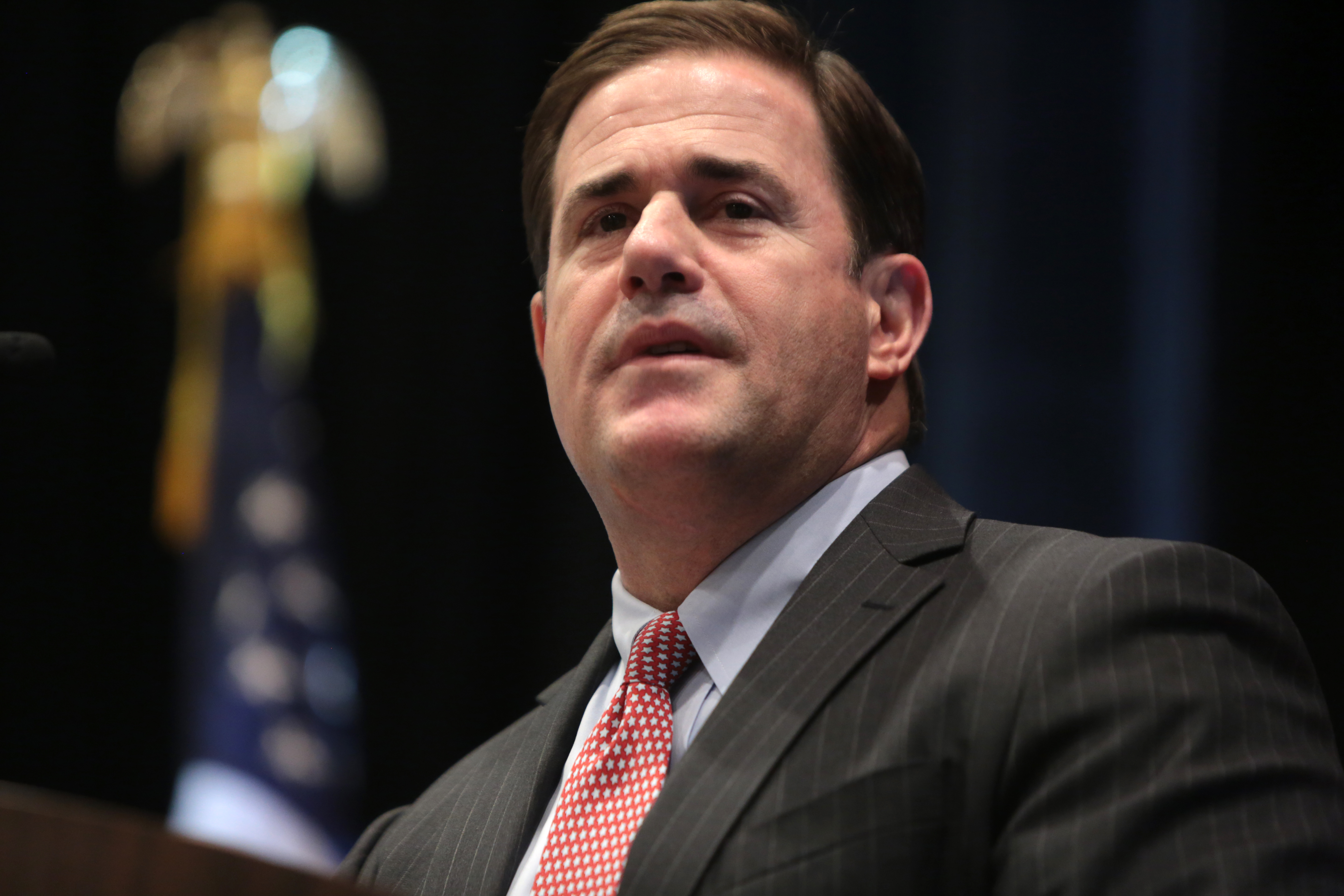 Governor Doug Ducey speaking at the 2016 Arizona CEO Summit hosted by Greater Phoenix Leadership at the Phoenix Marriott Tempe at the Buttes in Tempe, Arizona.